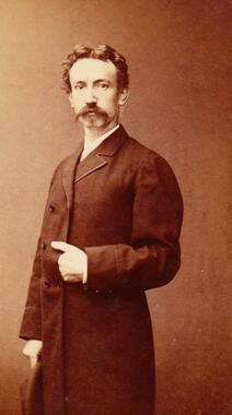 Die Aufnahme stammt aus den 70er Jahren des 19. Jahrhunderts und zeigt den Akademiestudenten Franz Thöne